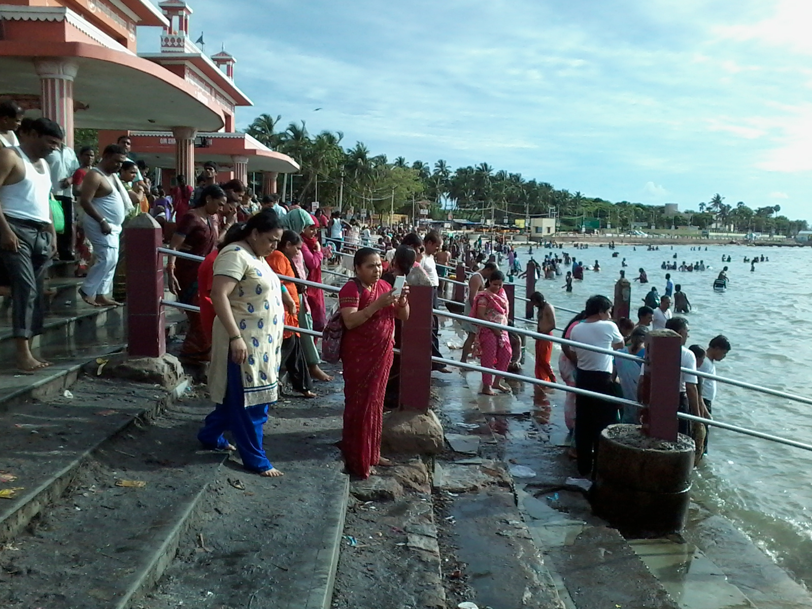 Agni theertham, Rameshwaram, Tamilnadu, India